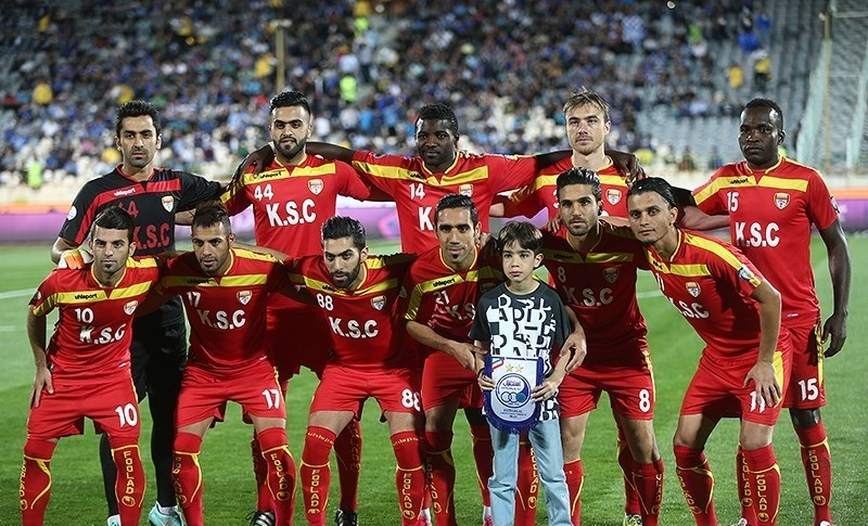 Foolad F.C. players before match with Esteghlal